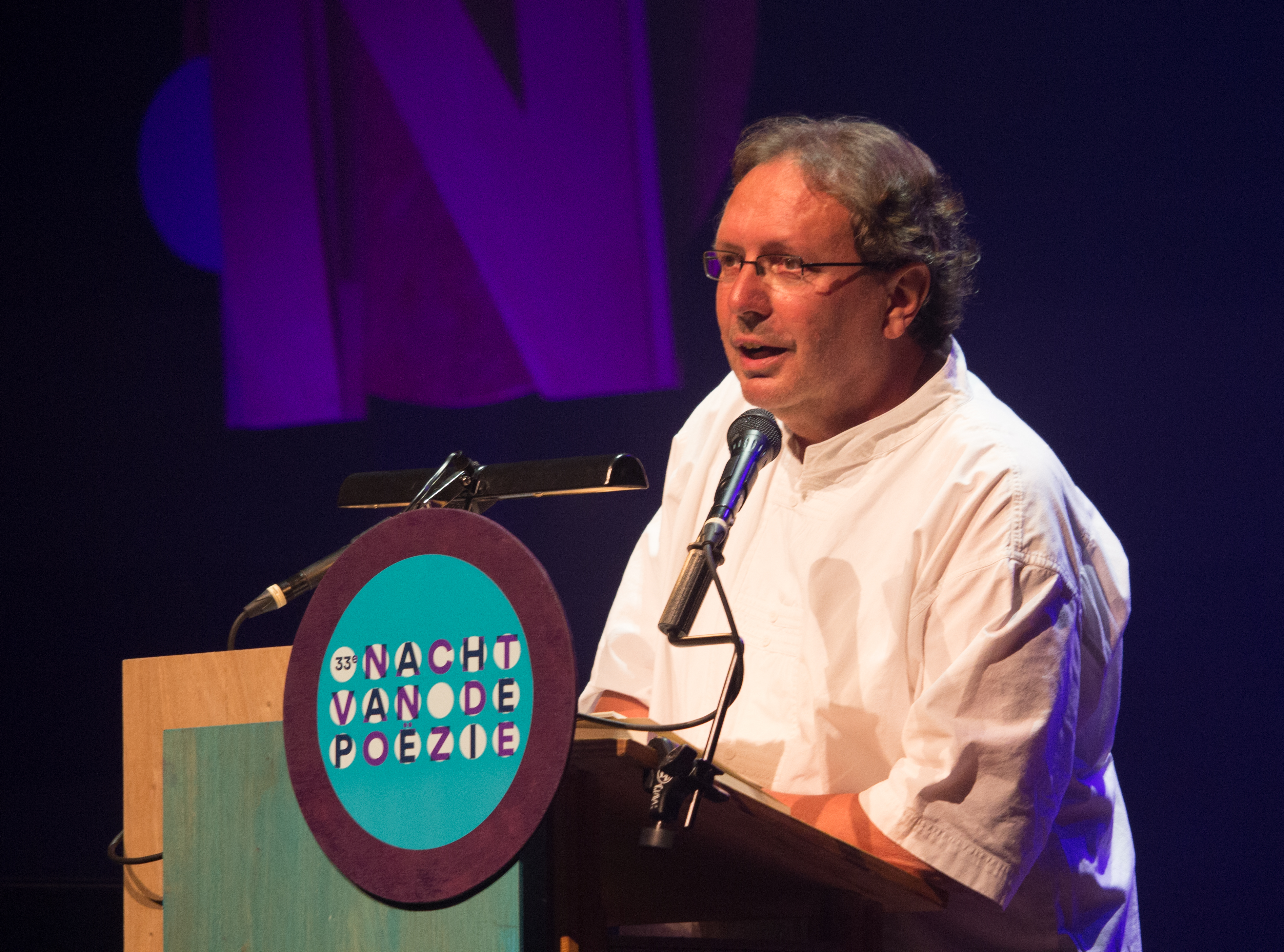 Luuk Gruwez speaking at the Nacht van de Poëzie